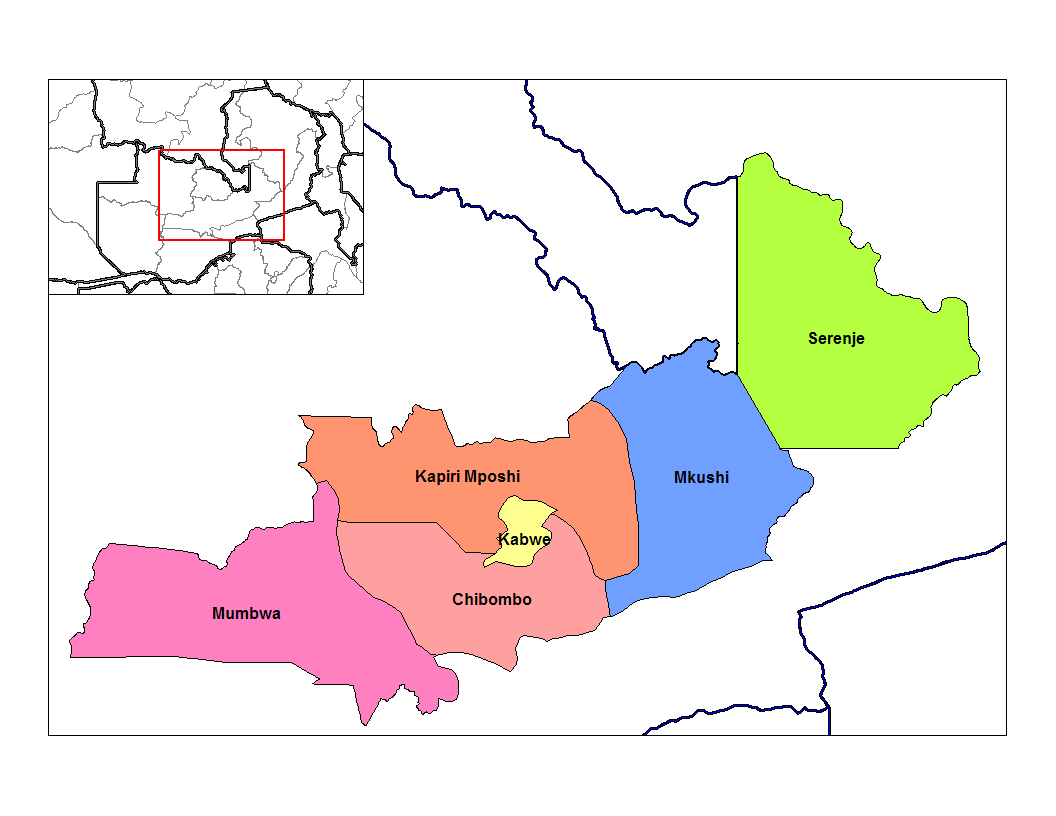 Map of the districts of Central province in Zambia. Created by Rarelibra 15:33, 28 December 2006 (UTC) for public domain use, using MapInfo Professional v8.5 and various mapping resources.